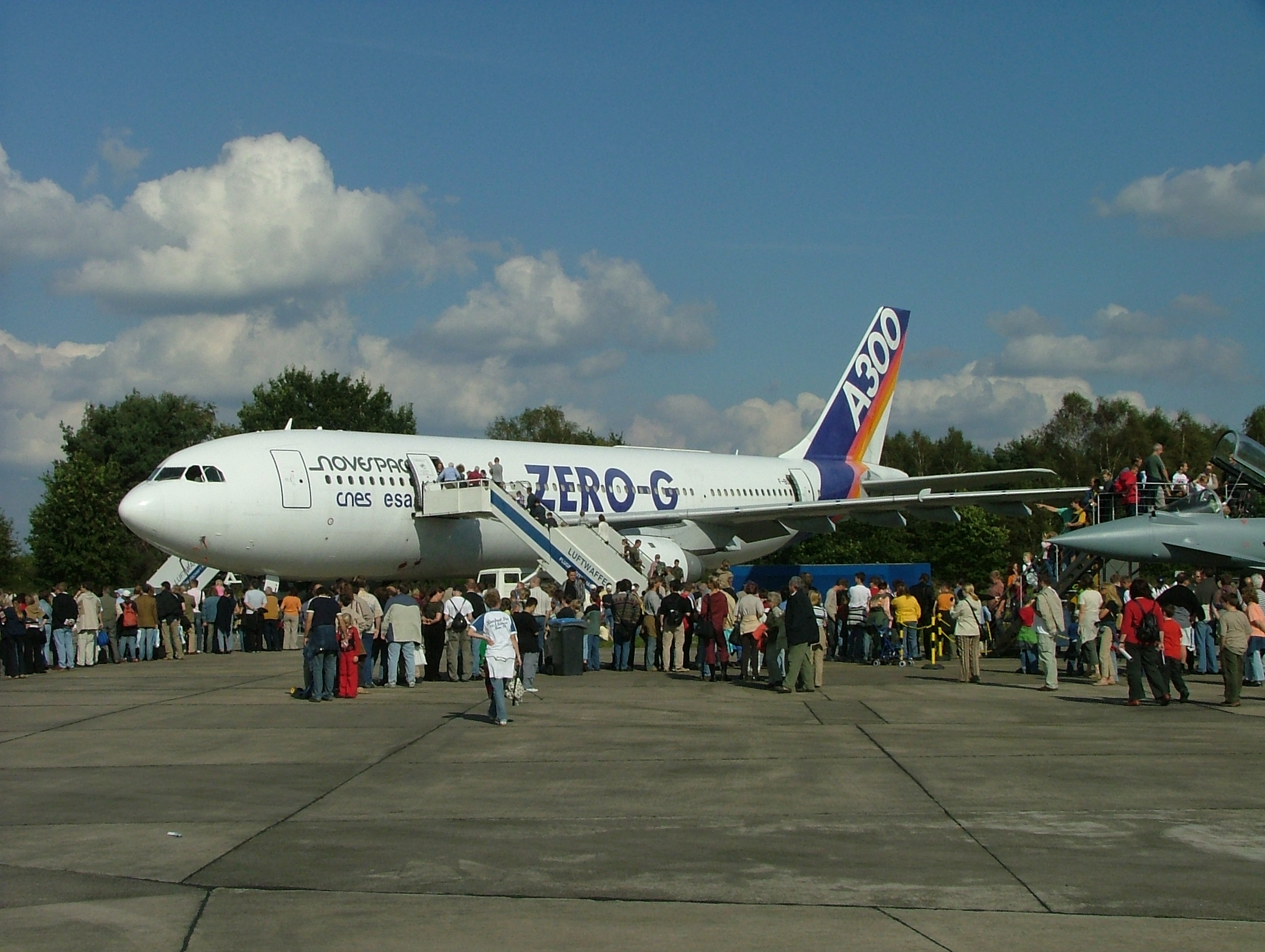 Airbus A300 Zero G at Cologne Bonn Airport, Germany